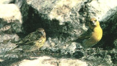 Nihoa finch (Telespiza ultima) on Nihoa Island, Northwestern Hawaiian Islands